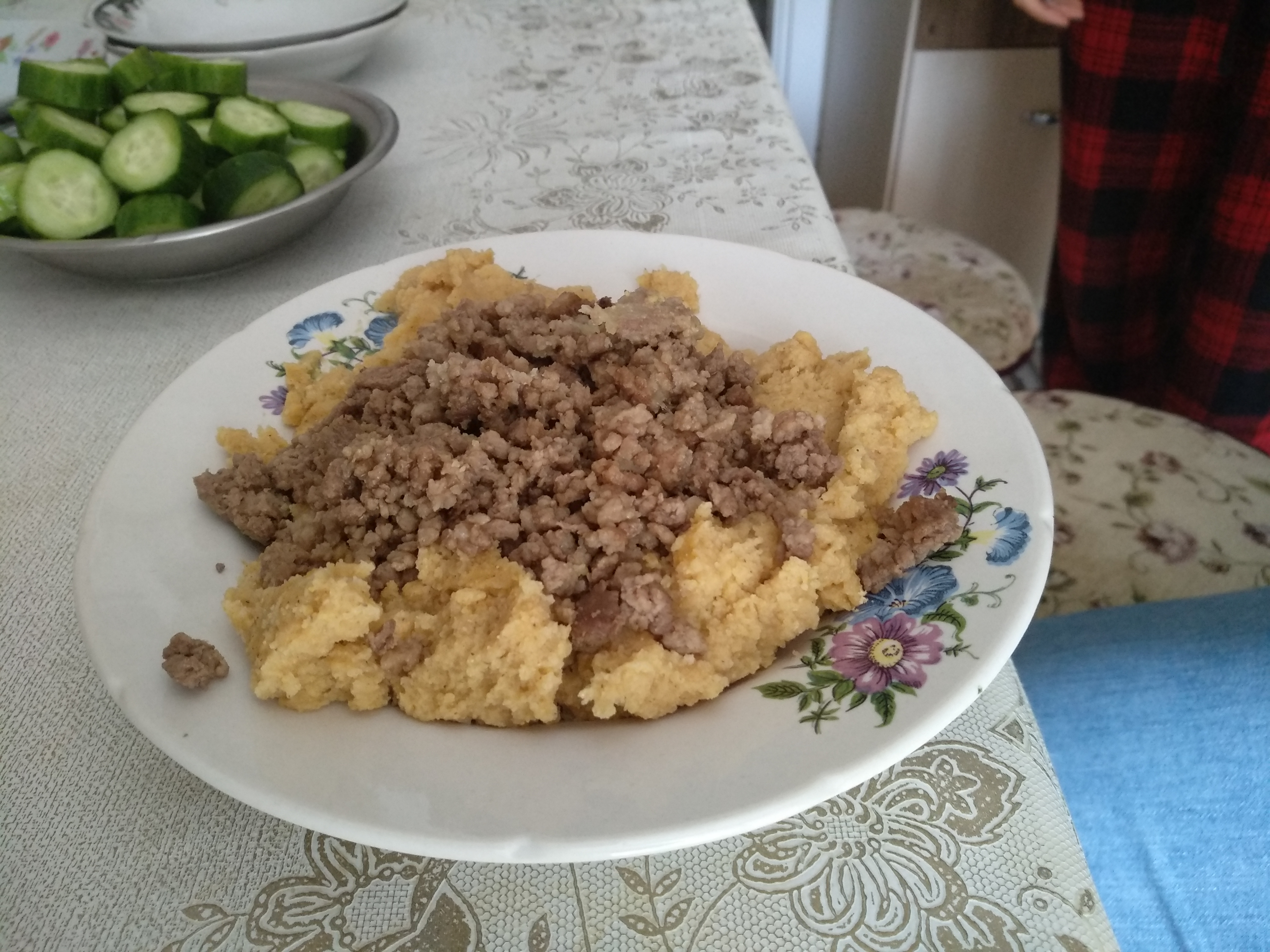 "Kaçamak" food.